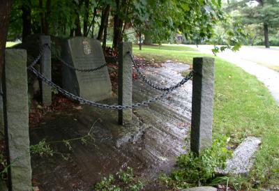 The Westford Knight, in Westford © 2004 Matthew Trump